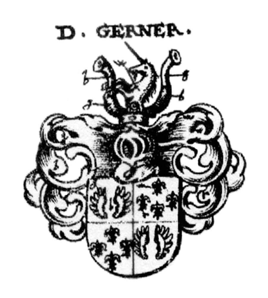 Coat of arms of Gerner